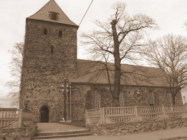 Church in Dąbie, Lubusz Voivodeship